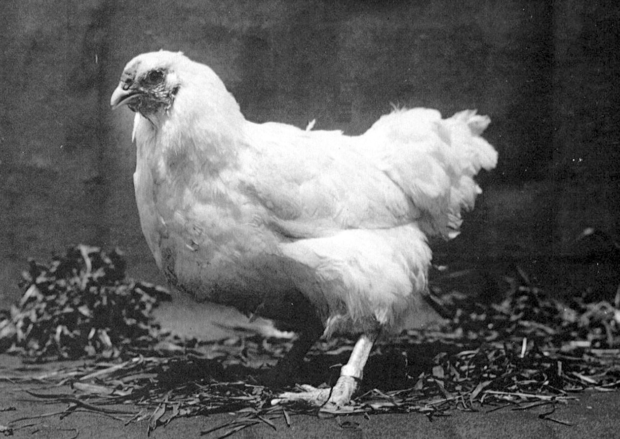 A White Chantecler hen, taken in 1926 at the Abbey of Notre-Dame du Lac in Quebec, where the breed was developed. (Cropped from original)